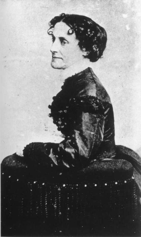 Portrait of Elizabeth Van Lew.